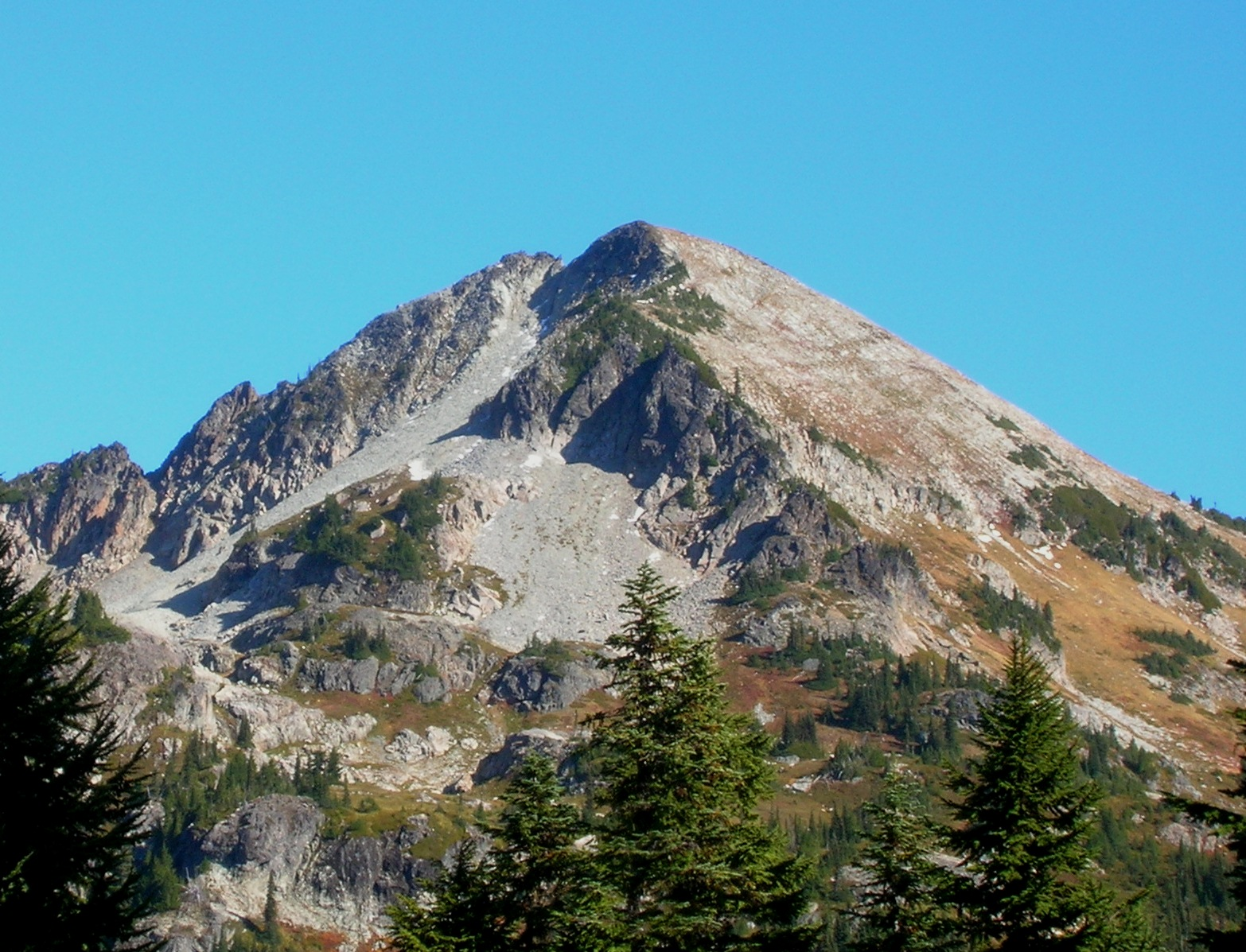 Pyramid Peak, west aspect, seen from Indian Henrys Hunting Ground.